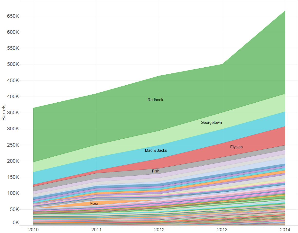 Area chart of Washington brewery production 2010-2014 from Washington State Liquor Control Board public data.